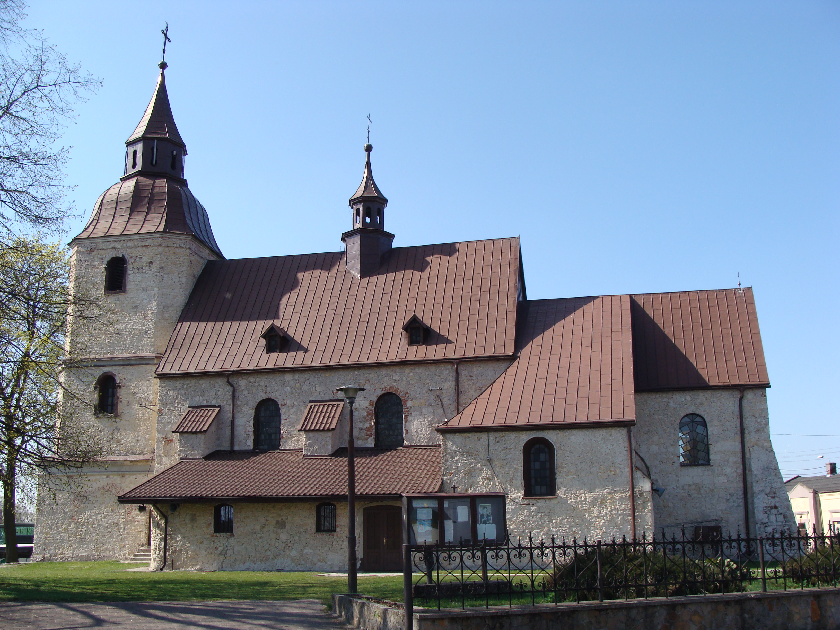 Church in Wojkowice Kościelne